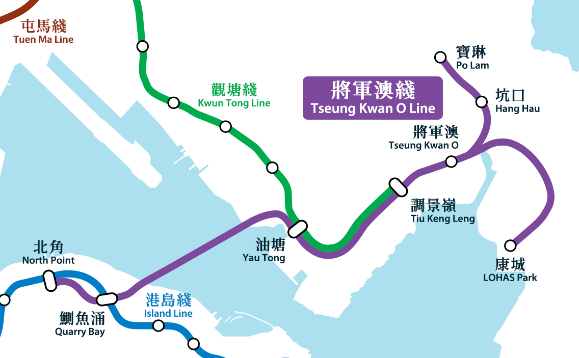 MTR Tseung Kwan O Line Geograpical Map